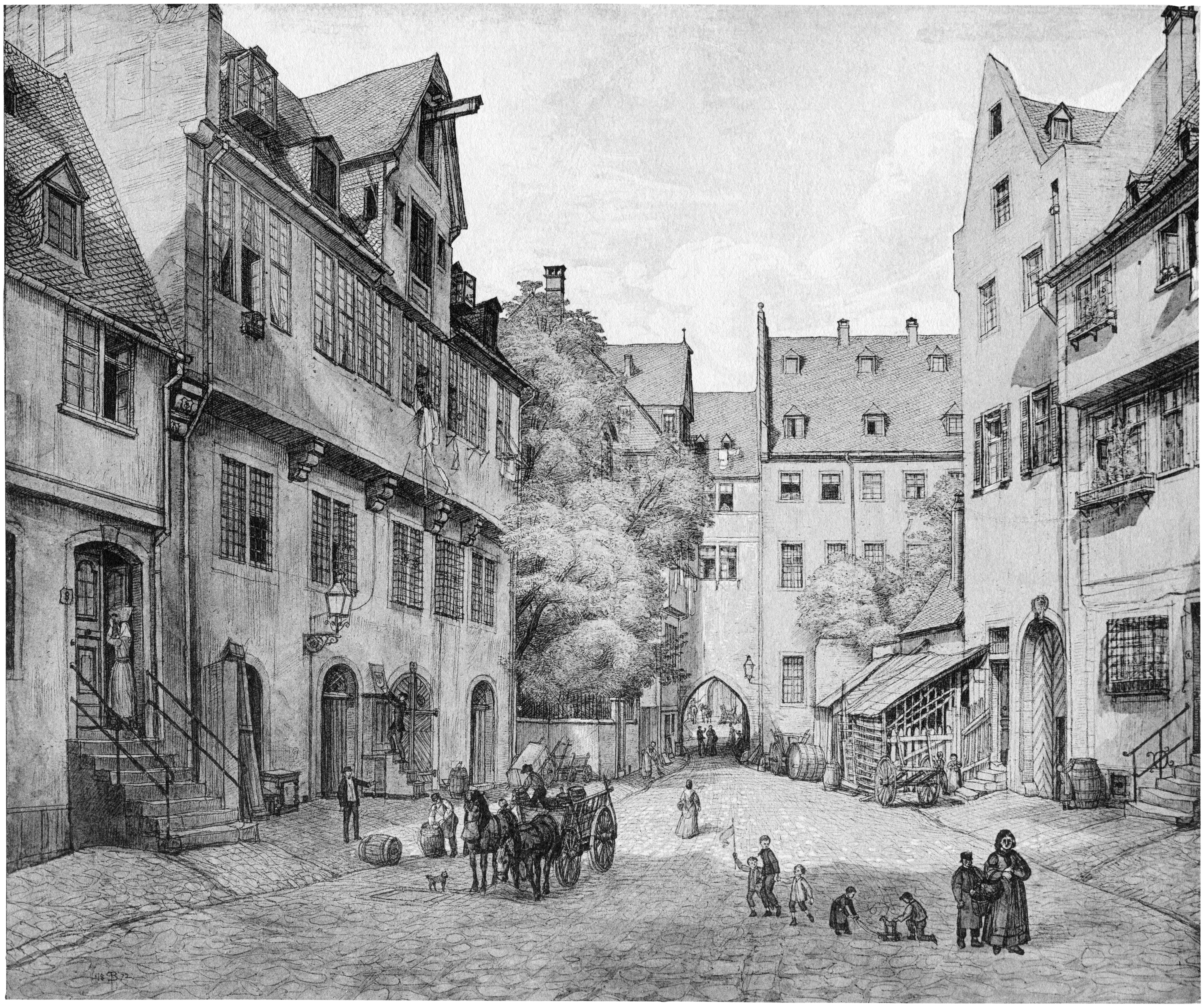 Frankfurt on the Main: The Arnsburger Hof (Arnsburg Court).